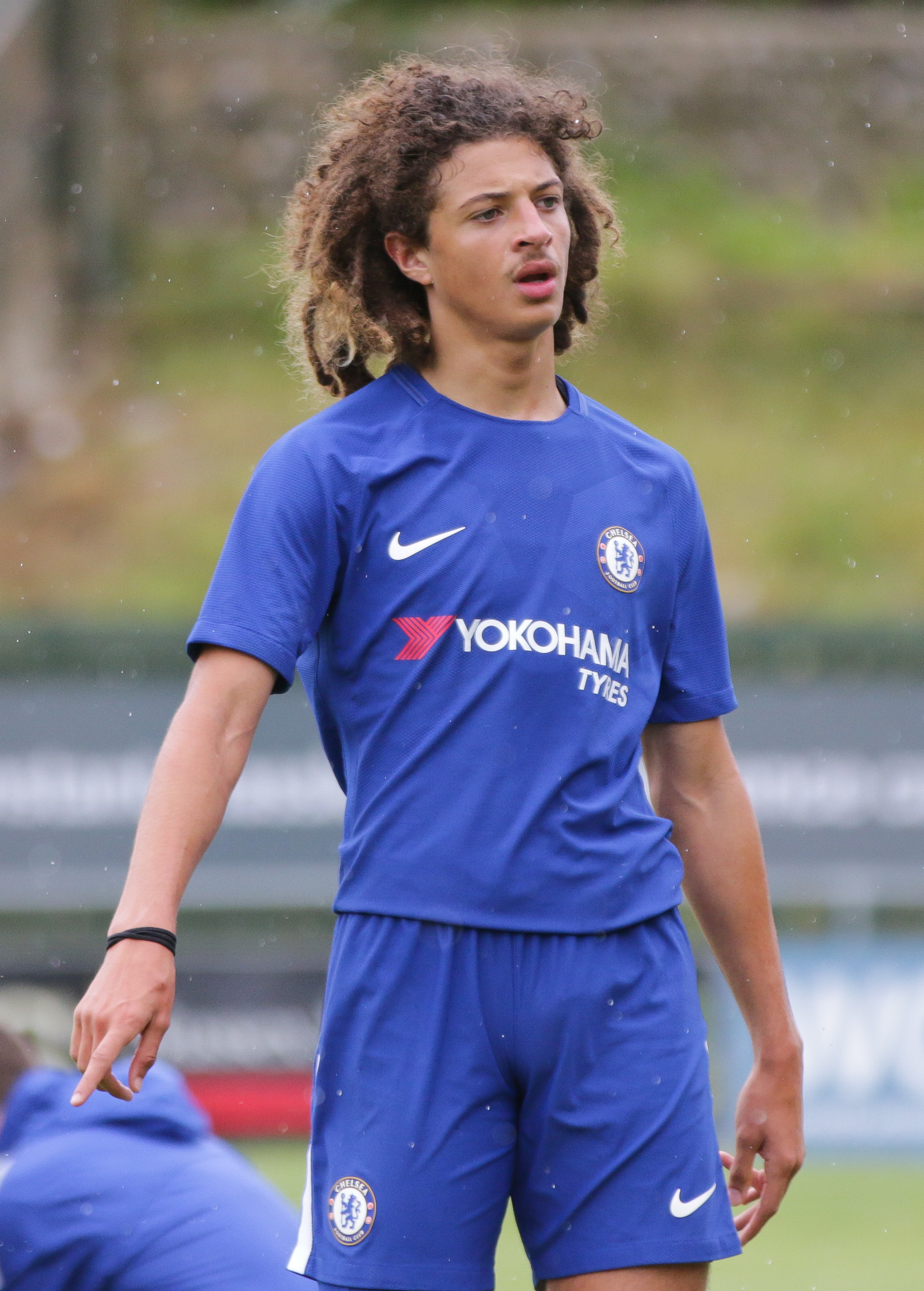 Lewes 0 Chelsea DS 1 Pre Season 22 07 2017-348.jpg